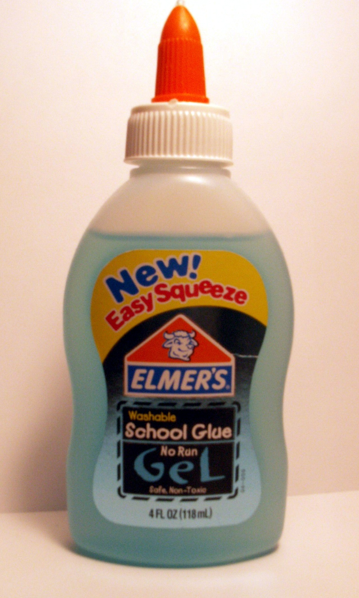 picture taken specifically for Elmer's Products Wikipedia page.the bottle contains no copyright information and use of the bottle on their own page would be fair use.